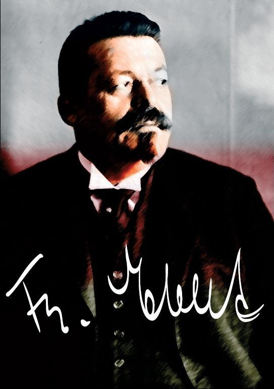 Emblem of the President Friedrich Ebert Memorial in Heidelberg